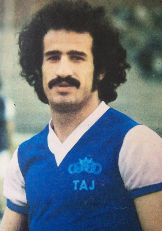 Gholam Hossein Mazloumi, Iranian footballer